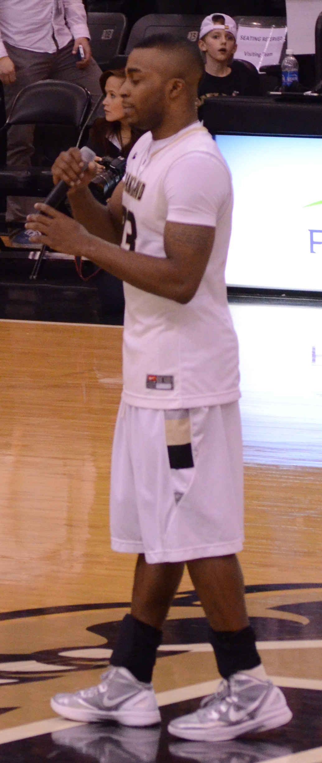 Greg Kampe and Reggie Hamilton at Oakland University men's basketball's senior night